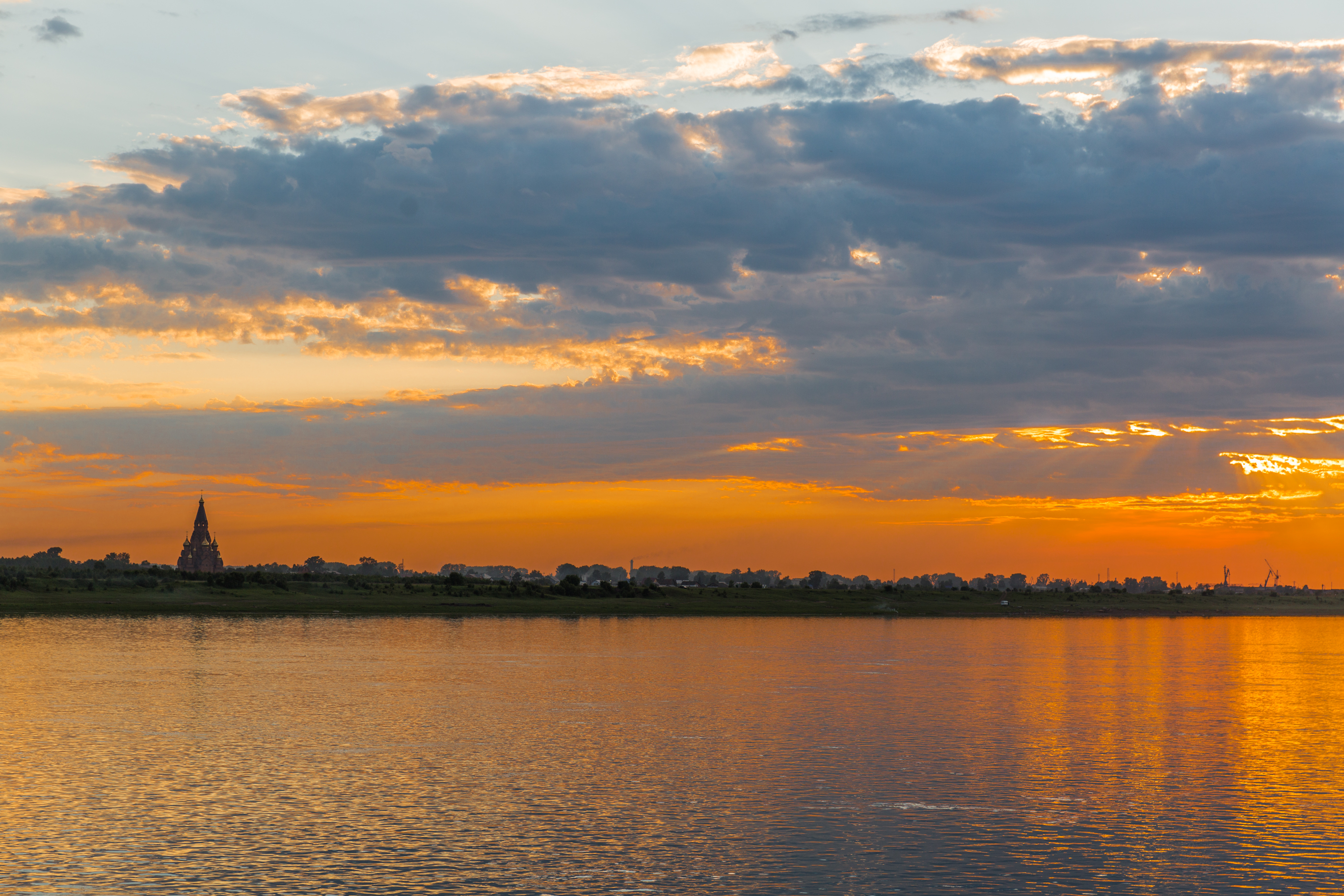 Yenisei River, Sunset